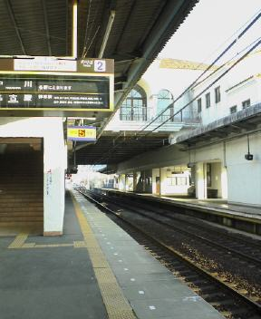 Local Train Station in Japan.